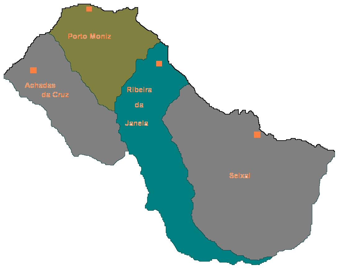 Parishes in Porto Moniz district (Madeira)